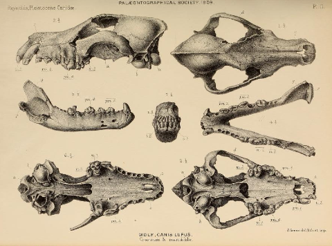 Wolf skulls and jaws from Hutton and Banwell Cave (Somerset) and Oreston Cave (Plymouth).